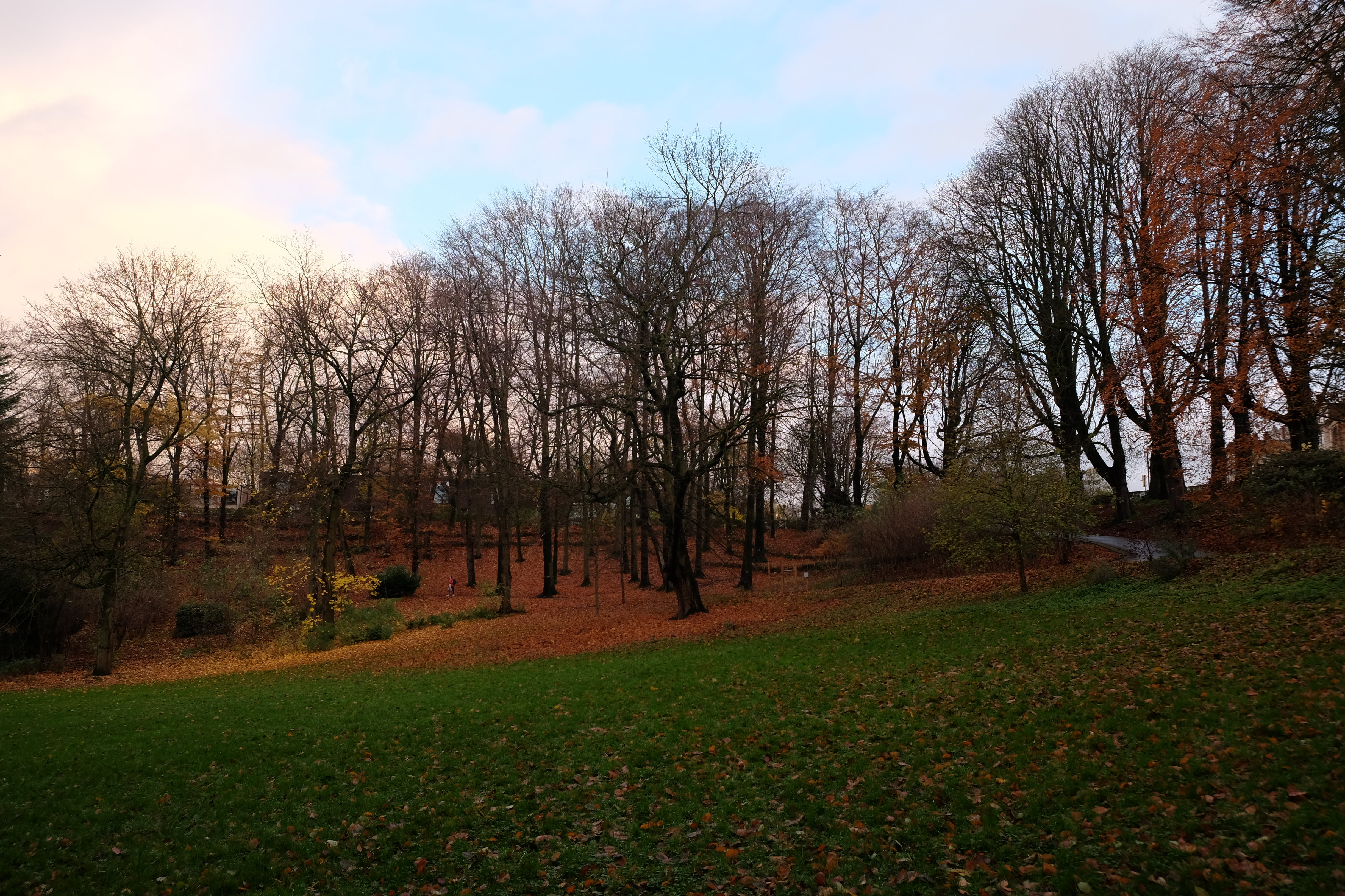 Parc Josaphat with pretty leaves